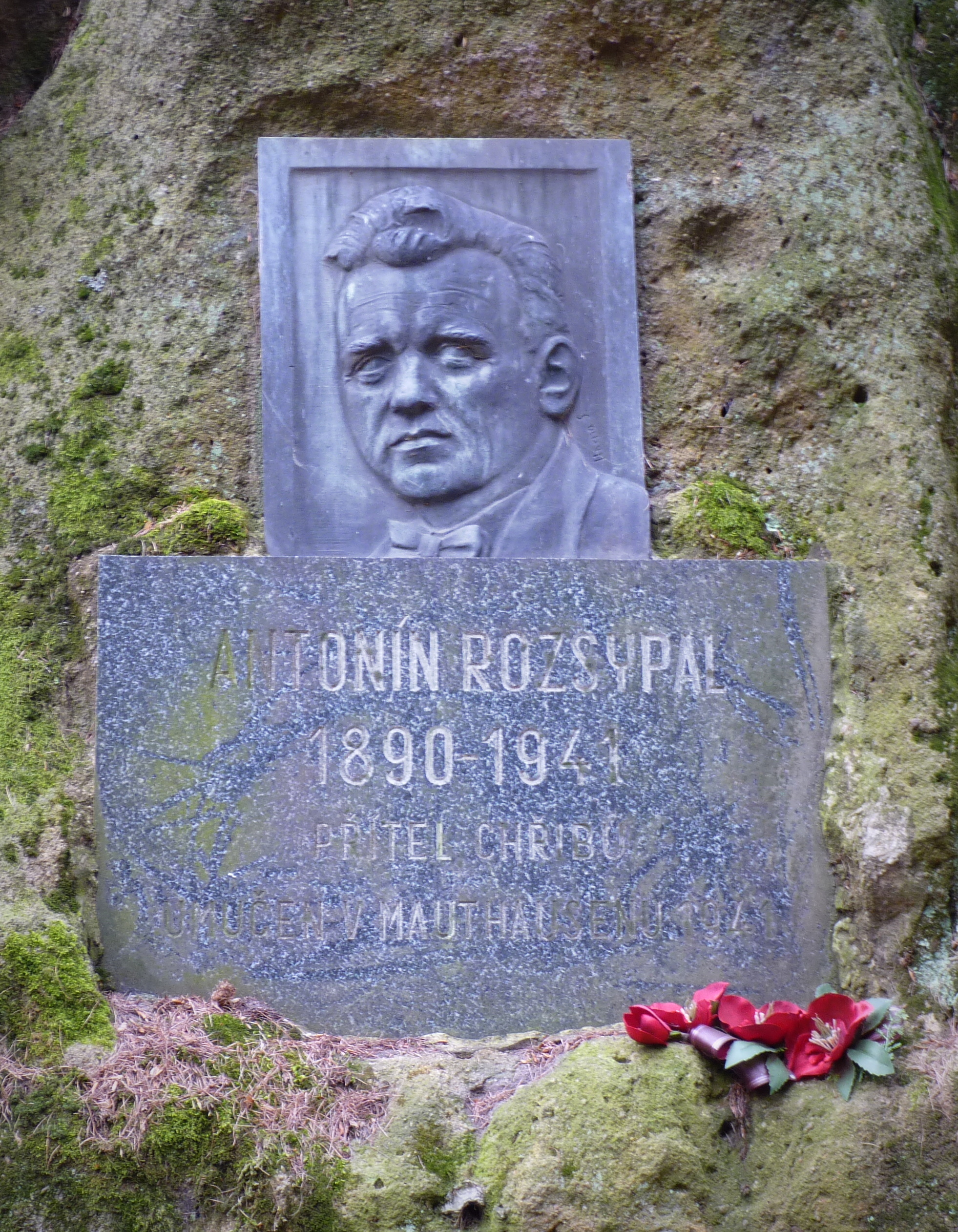 Budacina, natural monument. Chriby, South Moravian Region, Czech Republic Project: Chráněná území